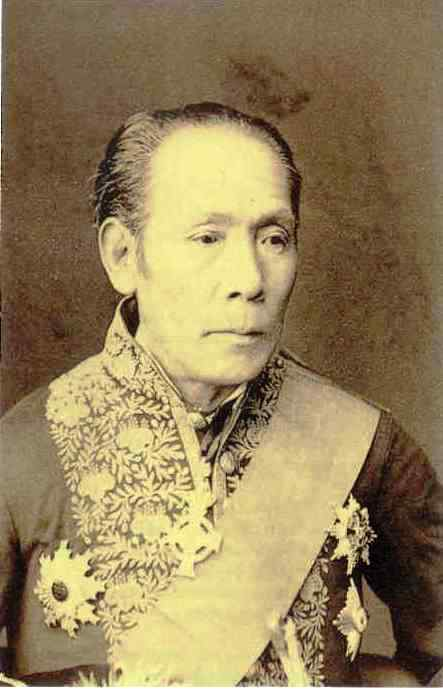 Count Sano Tsunetami (佐野 常民?, December 28, 1822 – December 12, 1902) was a Japanese statesman and founder of the Japanese Red Cross Society. His son, Admiral Sano Tsuneha, was a leading figure in the establishment of the Scout Association of Japan.